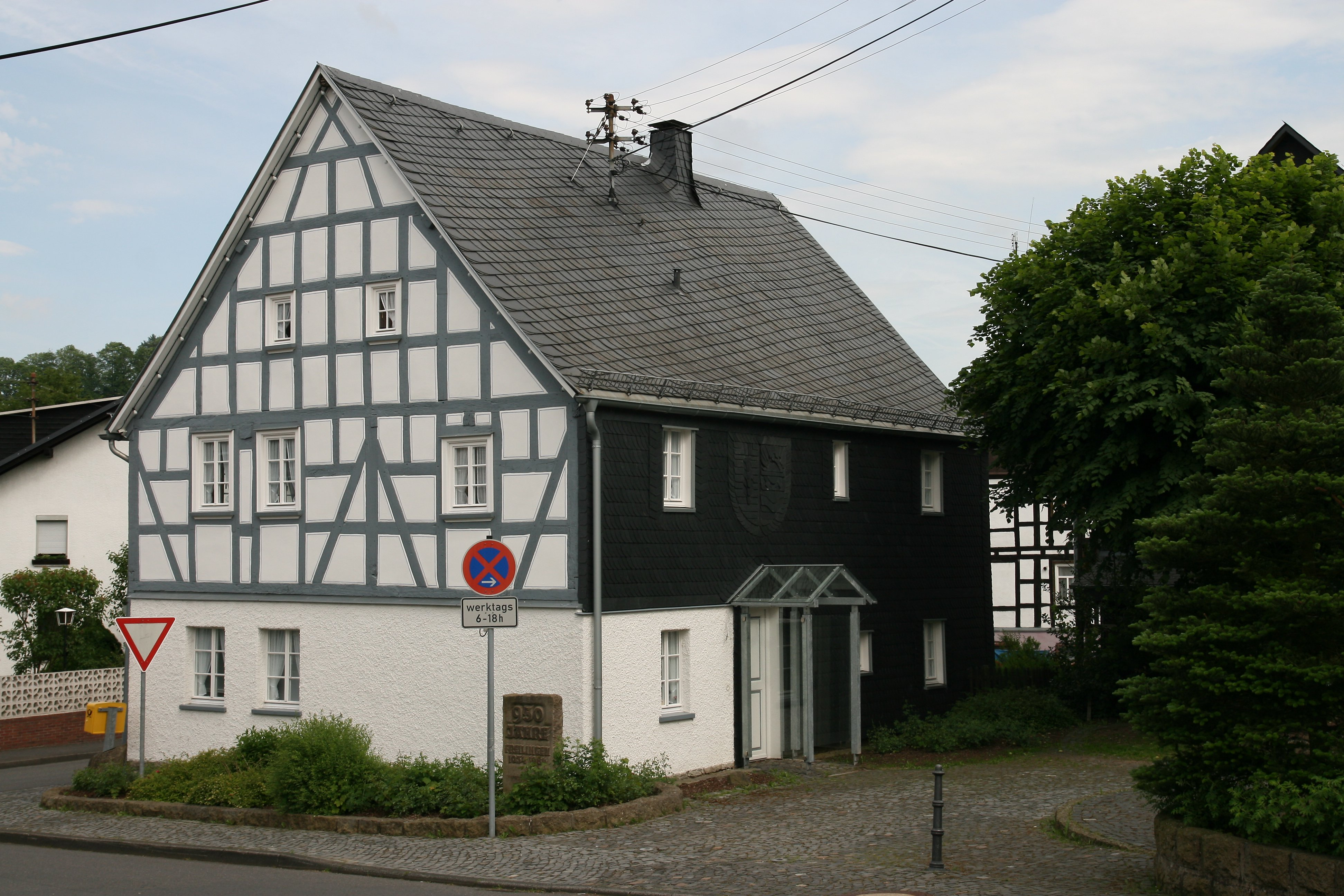 Village hall in Freilingen, Westerwald, Rhineland-Palatinate, Germany